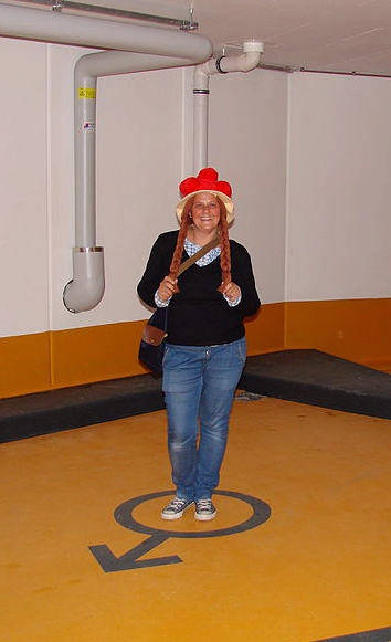 Triberg lady on a mens parking lot